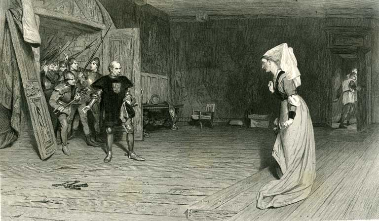 Talbot encounters the Duchess of Auvergne in Henry VI, Part 1